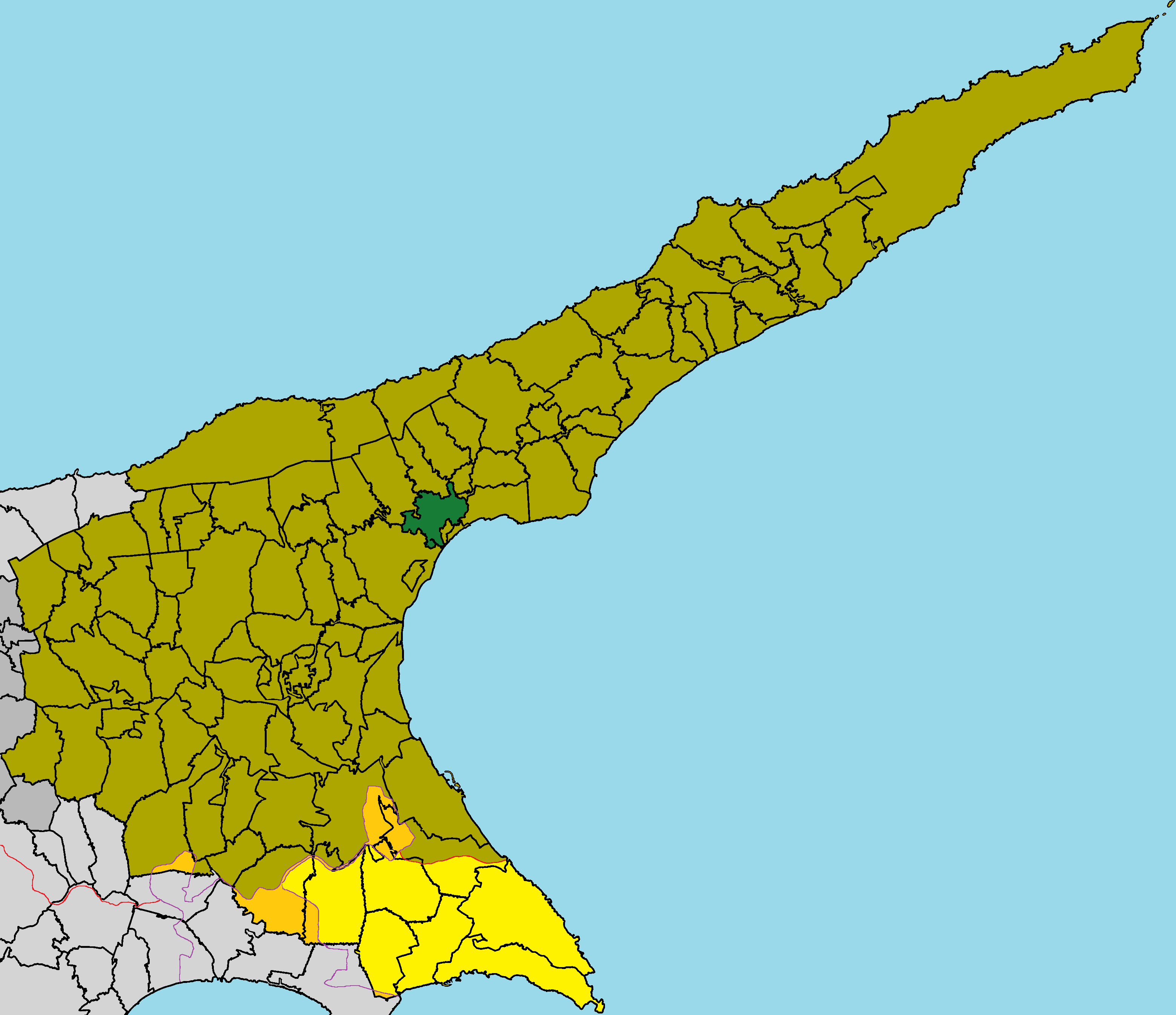 Agios Ilias in Famagusta District (de jure).